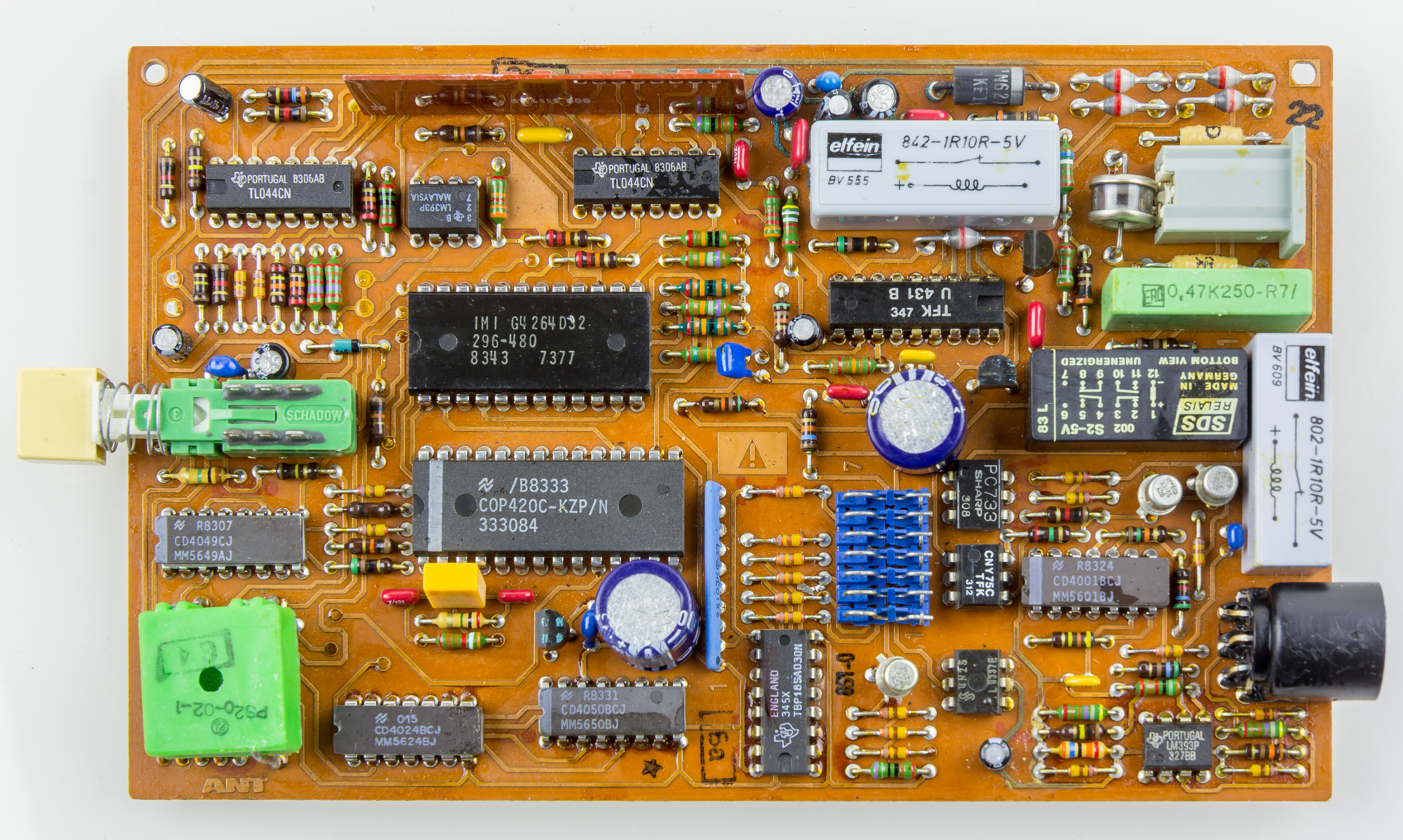 ANT Nachrichtentechnik BTX modem DBT-03